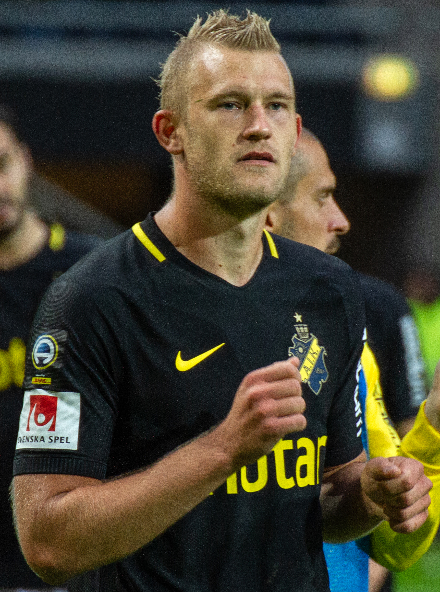 Robin Jansson in August 2018